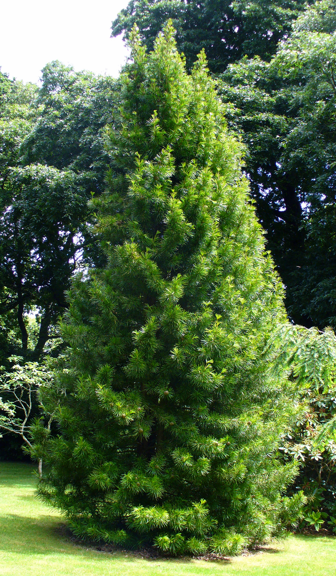 Sciadopitys verticillata tree, 12m tall. Cultivated, Pine Lodge Garden and Nursery, St. Austell, Cornwall, UK.